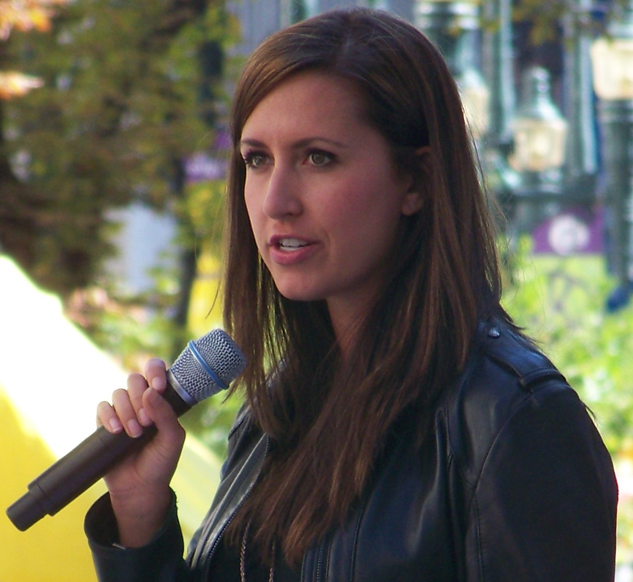 Jill Belland is a TV personality with Calgary Citytv. This image is a crop of a photo of Belland hosting a fashion event along Stephen Avenue Walk in downtown Calgary, Alberta, Canada